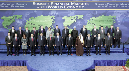 President George W. Bush stands with fellow world leaders Saturday, Nov. 15, 2008, for the family photo at the Summit on Financial Markets and the World Economy at the National Museum Building in Washington, D.C. White House photo by Grant Miller